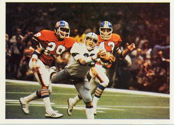 A football card from the 1986 Jeno's Pizza NFL football card stickers set of Dallas Cowboys wide receiver Butch Johnson catching a touchdown pass against the Denver Broncos in Super Bowl XII. The card is numbered #2 in the set. The back of the card reads: A SUPER CATCH BY BUTCH JOHNSON Dallas wide receiver Butch Johnson makes a spectacular, diving catch of a 45-yard touchdown pass from Roger Staubach, as the Cowboys defeat Denver 27-10 in Super Bowl XII. Johnson beat Denver defensive backs Bernard Jackson (29) and Steve Foley. The Dallas defense helped set up the victory by intercepting four passes and recovering four fumbles.